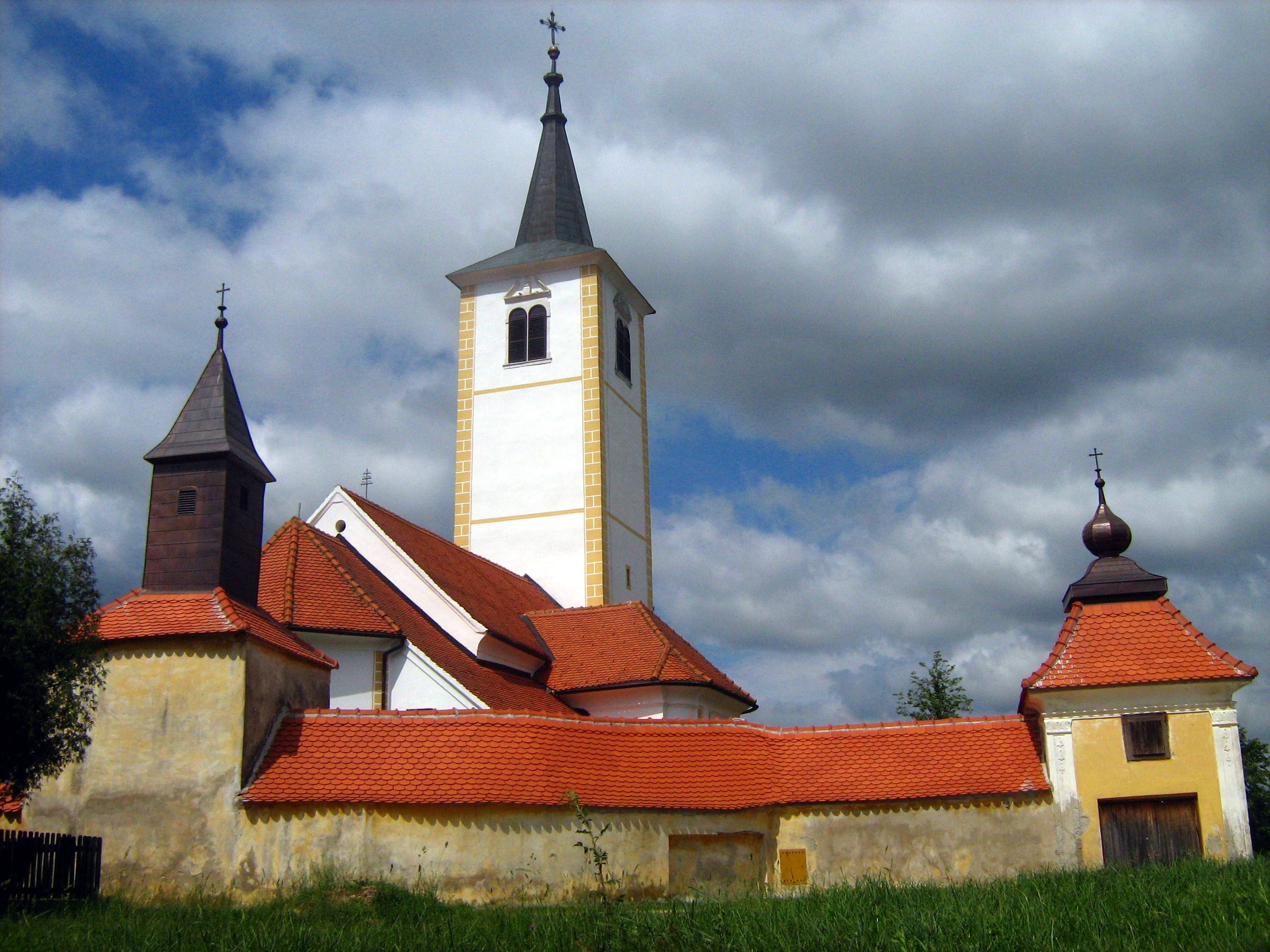 Exterior of the baroque church of Our Lady of Snows in the village of Belec in northern Croatia.